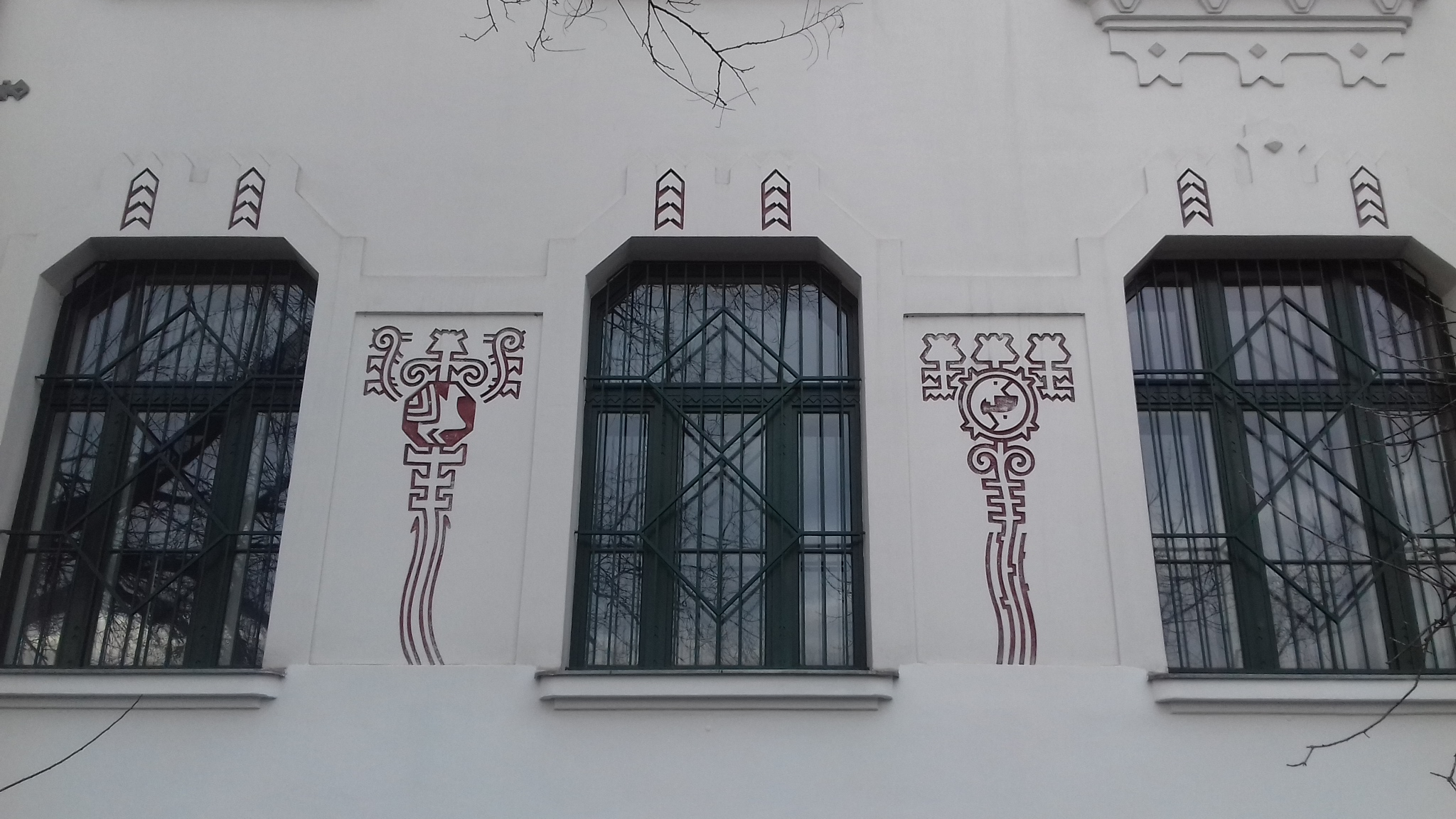 Sgraffito decorations and facade windows of the Tündér (Fairy) Palace.